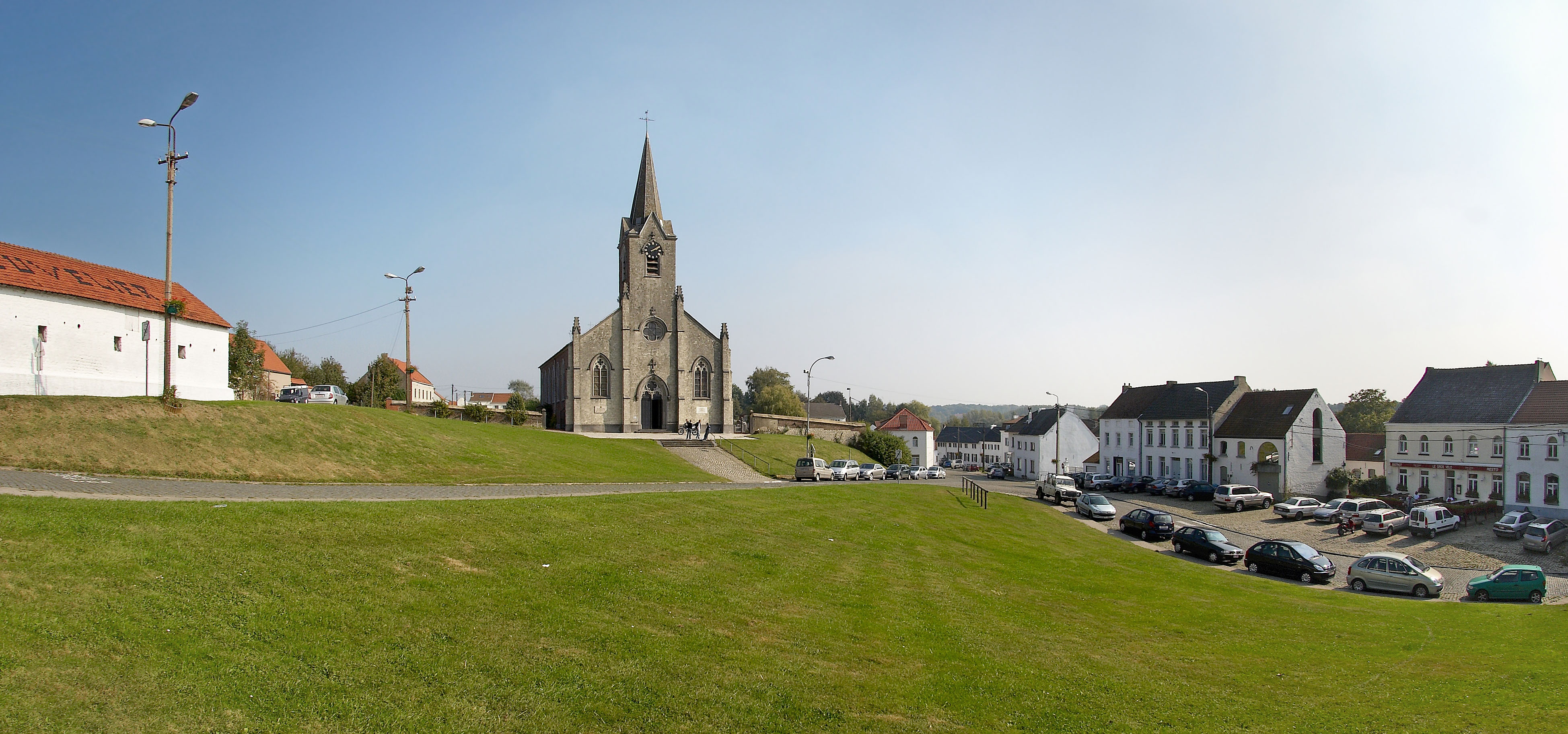 Church in Plancenoit (Lasne), Belgium